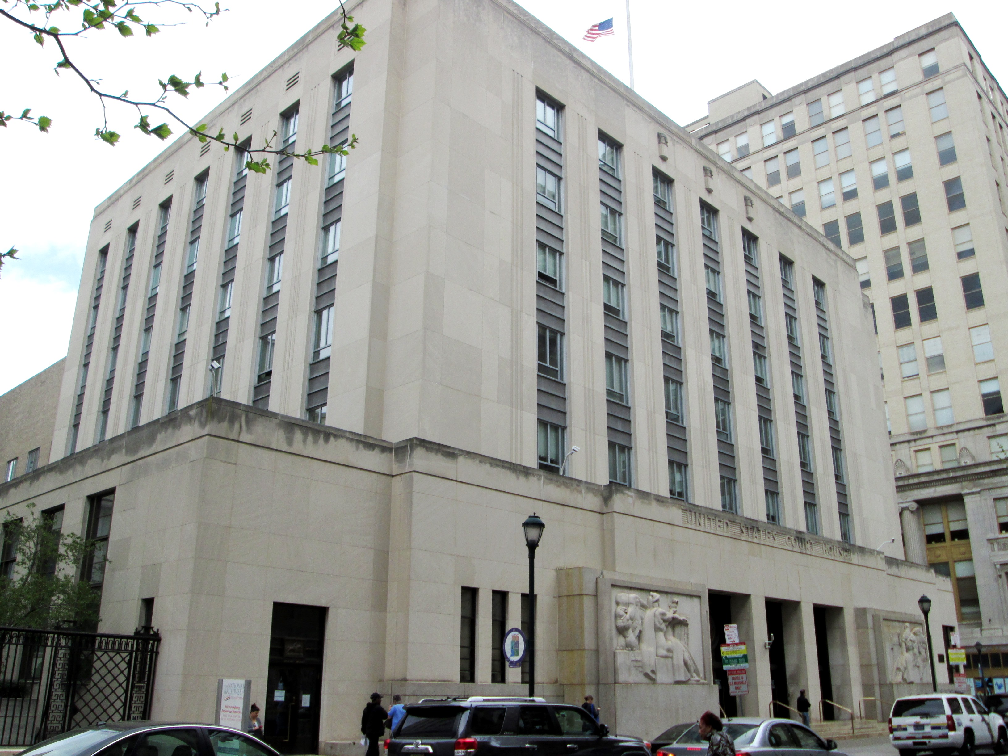 The former United States Court House and Post Office Building in Phiadelpha, now the Robert N.C. Nix, Sr. Federal Building. This view is of the entrance on Chestnut Street, used by the National Archives.